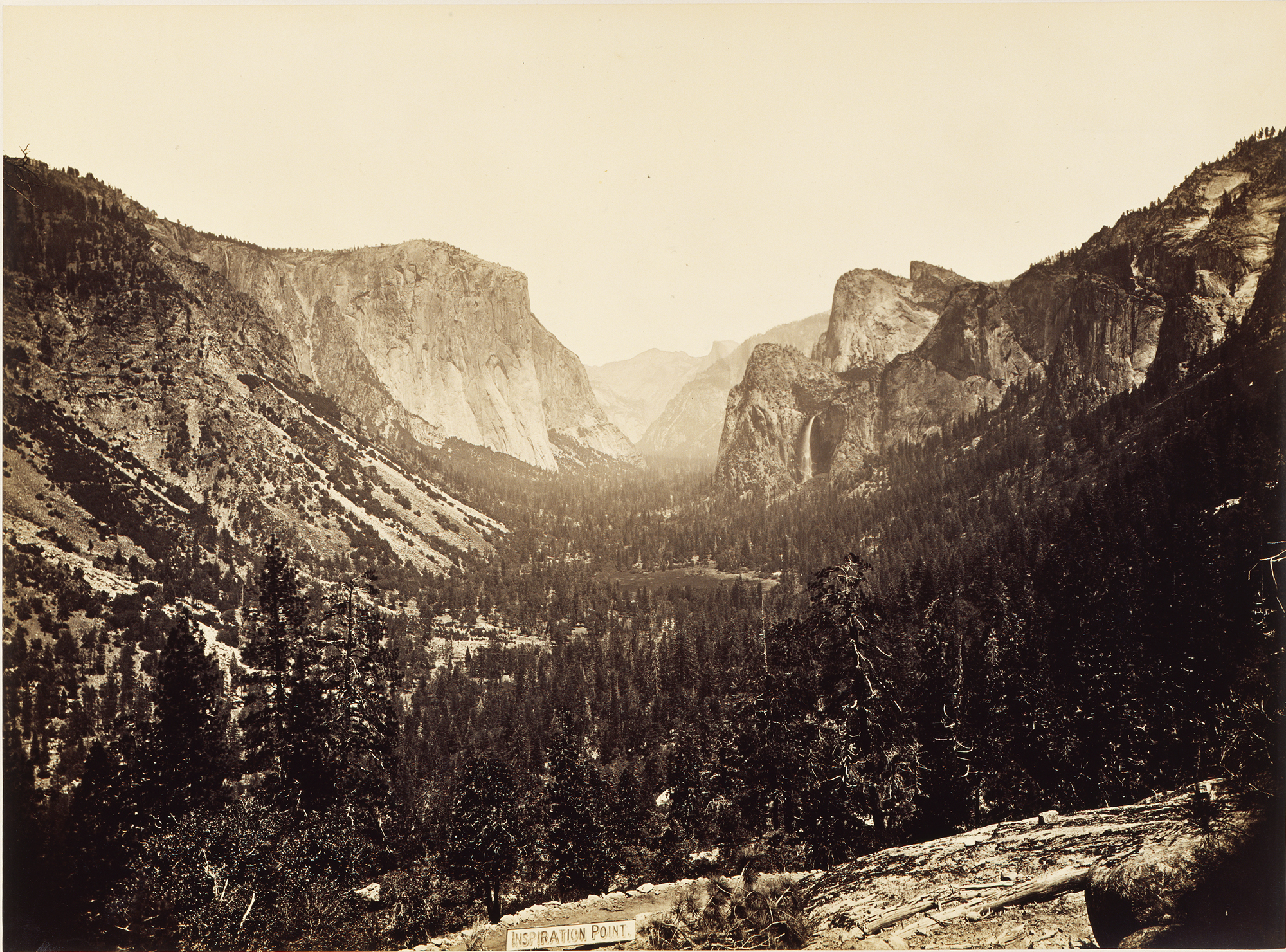 Carleton Watkins, American, 1829–1916 View from Inspiration Point, 1879 Albumen print image: 39.5 x 54.2 cm. (15 9/16 x 21 5/16 in.) mount (album): 50.2 x 65.2 cm. (19 3/4 x 25 11/16 in.) Museum purchase, Fowler McCormick, Class of 1921, Fund 2006-34